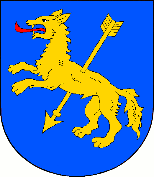 Municipal coat of arms of Rýmařov town, Bruntál District, Czech Republic.